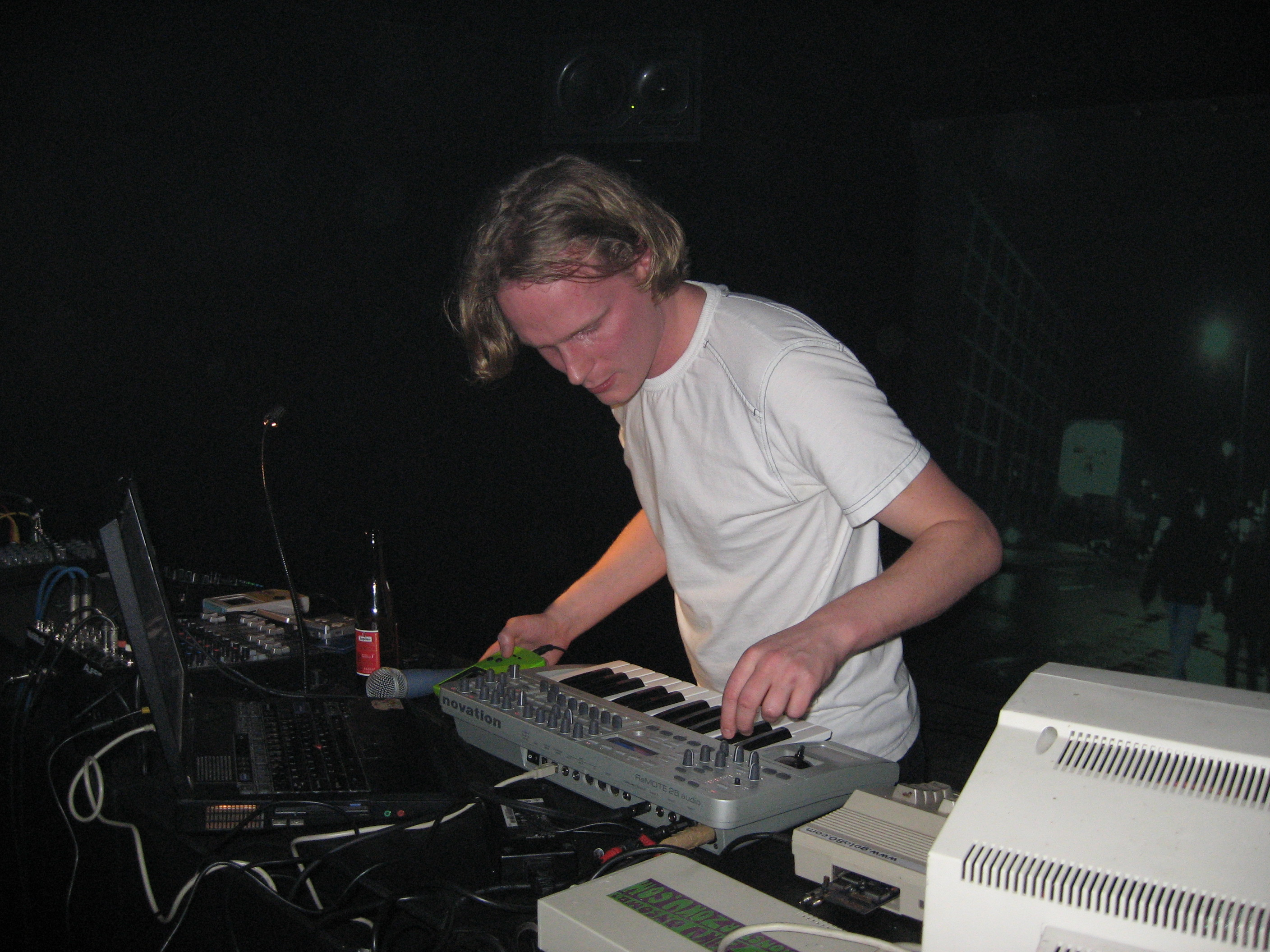 Swedish chiptune musician Goto80 (Anders Carlsson) performing at MediaRuimte, Brussels in 2006